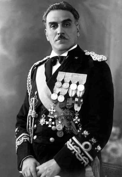 Luigi Rizzo, 1st Count of Grado and Premuda (1887-1951), here photographed in his uniform as Rear Admiral of Regia Marina. Nicknamed the Sinker, on 10 June 1918, with the rank of Navy Lieutenant, he had a major role in the sinking of the Austro-Hungarian battleship SMS Szent István (Saint Stephen). For his bravery he received two gold medals and four silver medals of Military Valor.